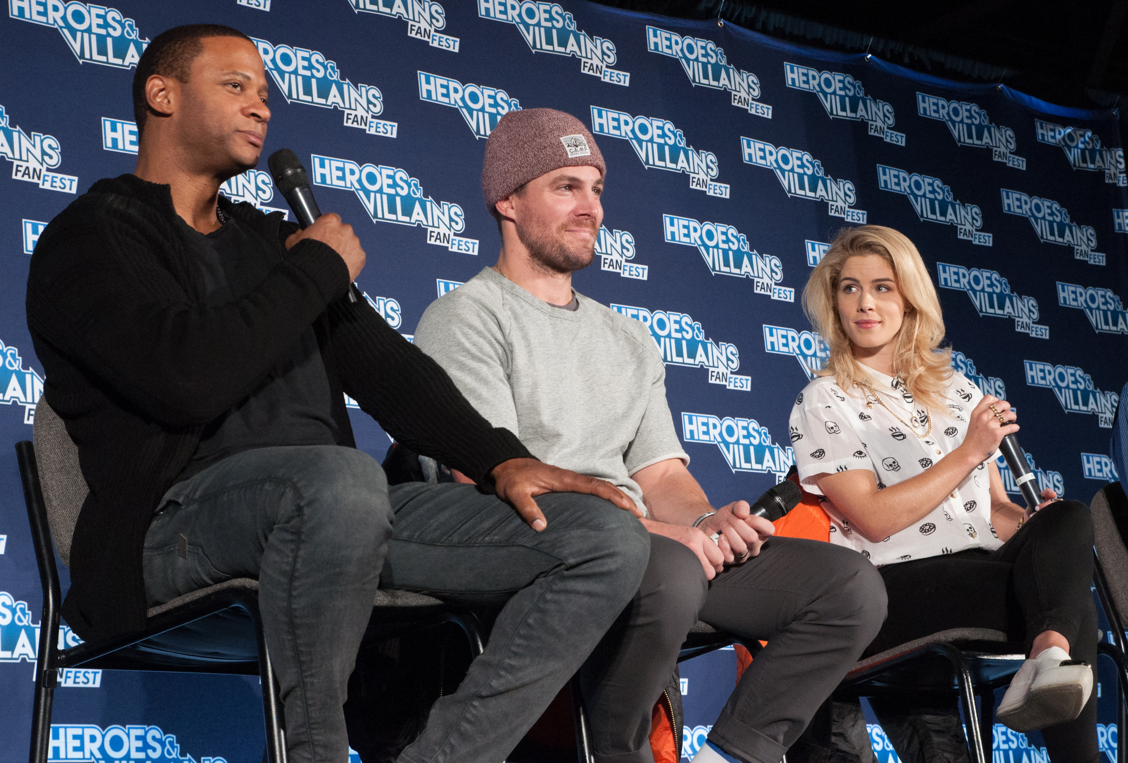 HVFFATL2017OTA-ALS-63